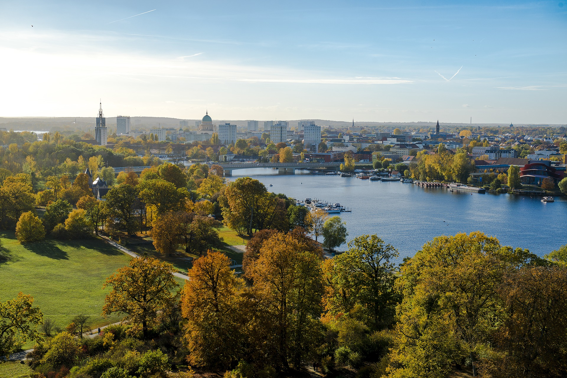 Skyline of Potsdam (Germany), view from Babelsberg Park